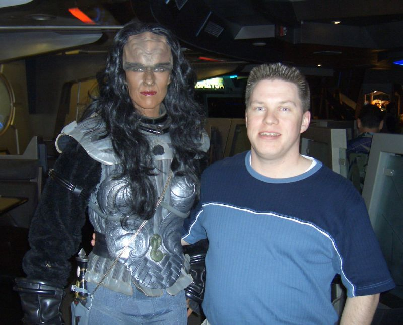 Klingon woman cosplayer.